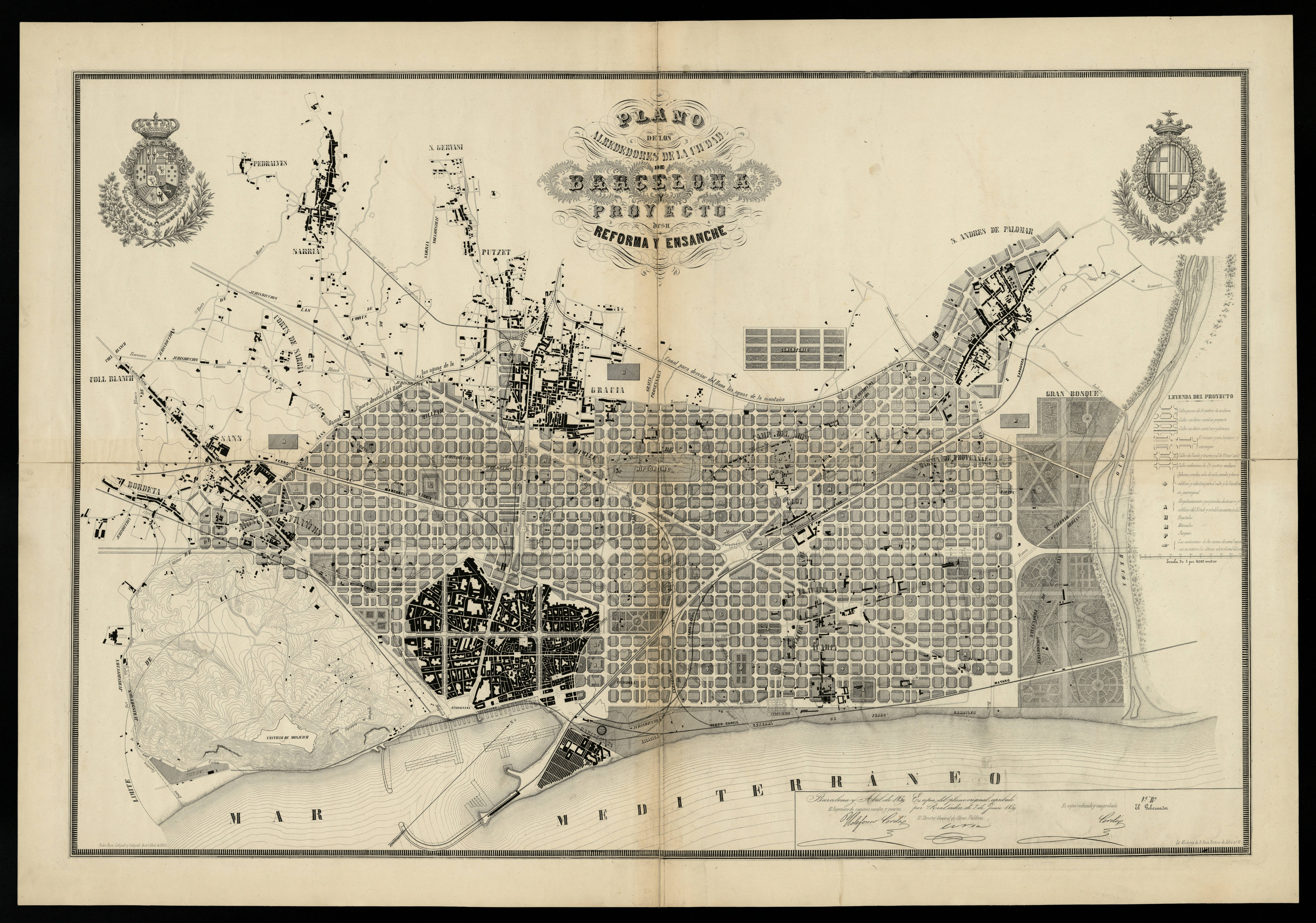 Enlargement map of Barcelona. Map of the neighborhoods of the city of Barcelona and project for its improvements and enlargement, 1859.